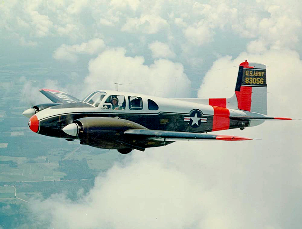 A U.S. Army Beechcraft U-8D Seminole (s/n 58-3056) in flight. The U-8 was designated L-23 before 1962 and was the military version of the Beechcraft Twin Bonanza.